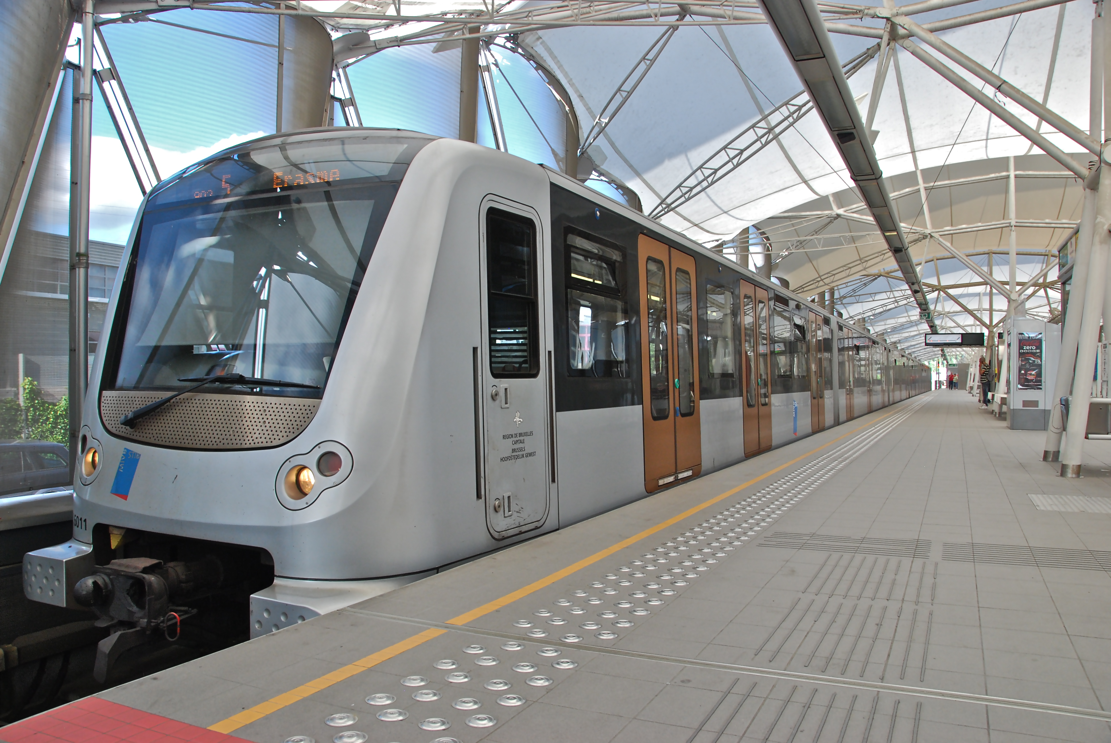 M6 ("Boa") series trainset of the Brussels Metro.